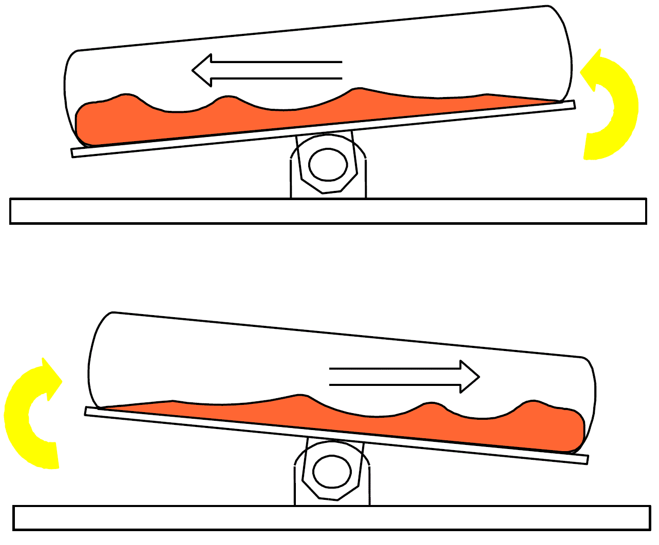 WaveMotion.gif